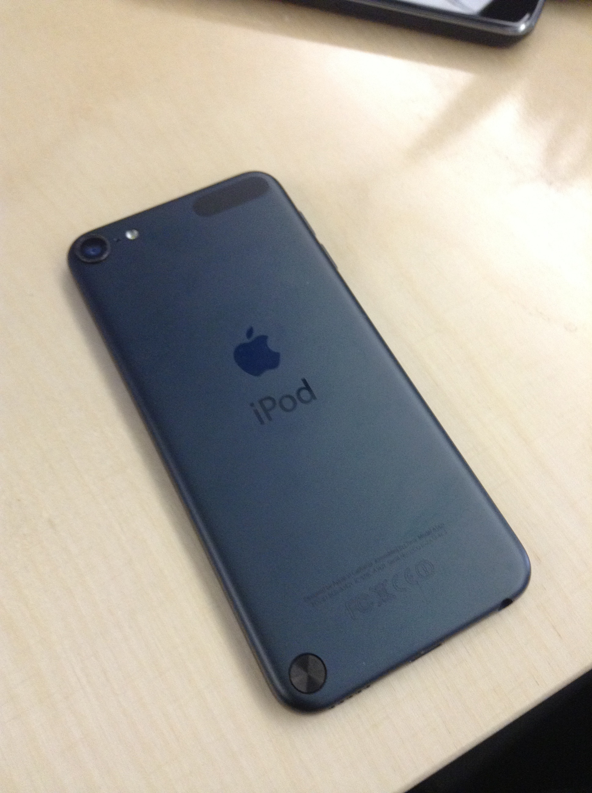 Backside of iPod Touch fifth-generation. Taken at wikimedia offices by original uploader.